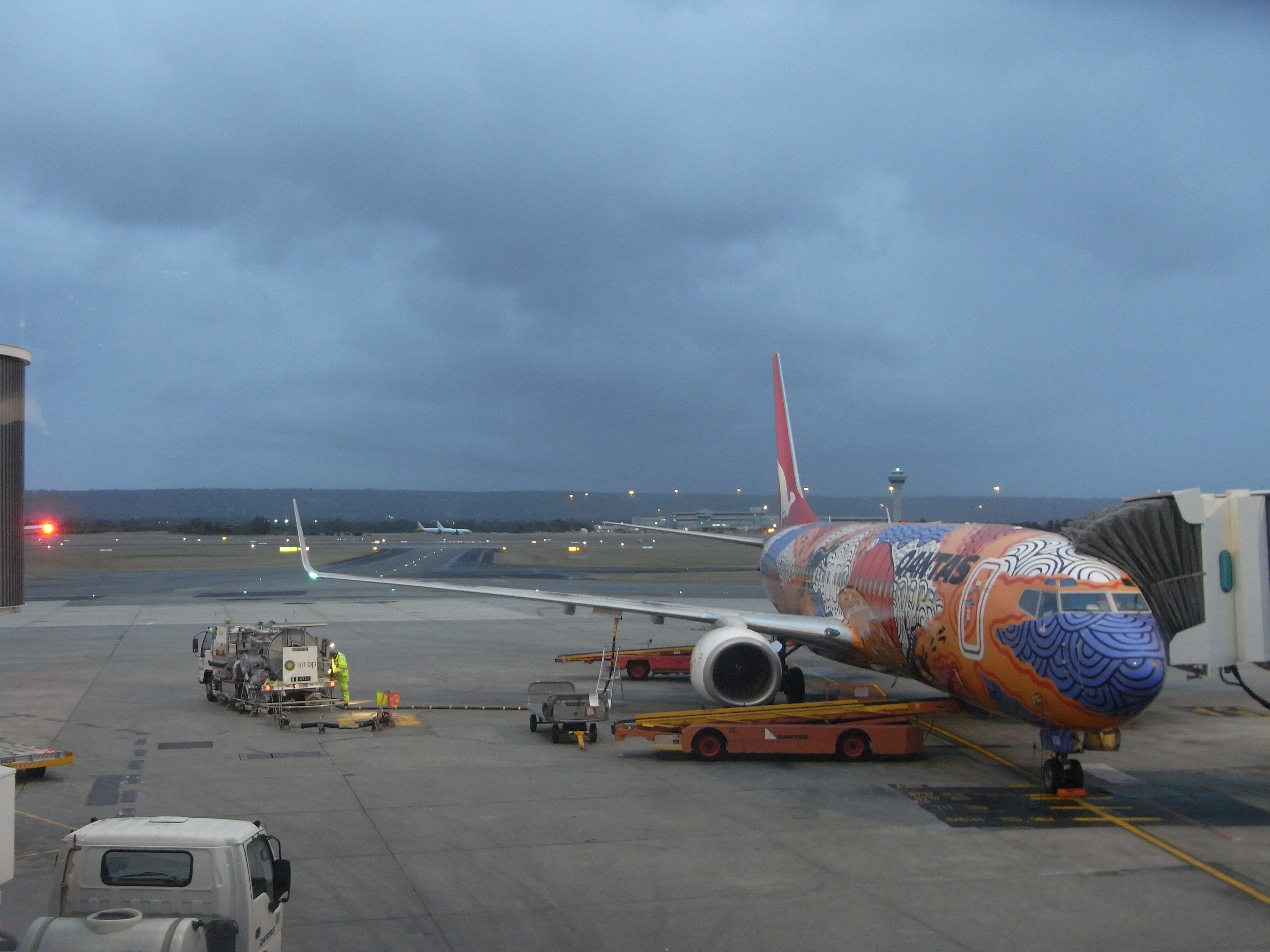 Waiting to go home to Melbourne.A Qantas aircraft in indigenous livery.